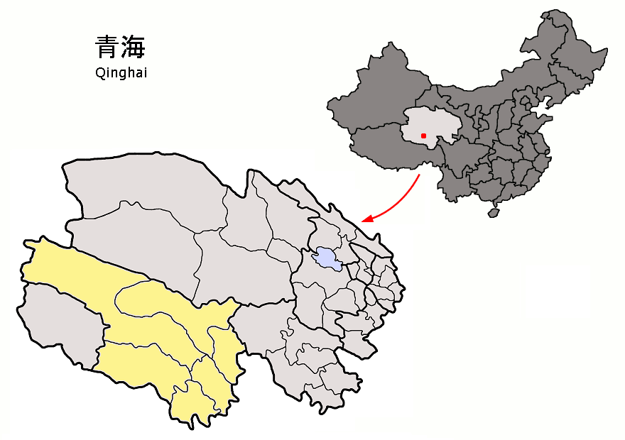 Location of Yushu Prefecture (yellow) within Qinghai province of China Map drawn in september 2007 using various sources, mainly : Qinghai province administrative regions GIS data: 1:1M, County level, 1990 Qinghai Counties map from "Plateau Perspectives" (the limits of some county-level subdivisions may not be accurate)